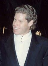 Ron Pearlman (standing, right) at the Governor's Ball following the 41st Annual Emmy Awards, 9/17/89